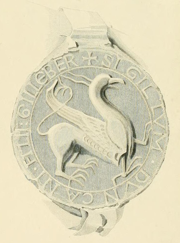 Impression of the seal of Donnchadh, earl or mormaer of Carrick, attached to a charter granting the monks of Melrose Abbey fishing rights in the Doon